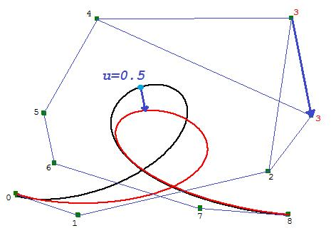 Pomeranje kontrolnih tačaka